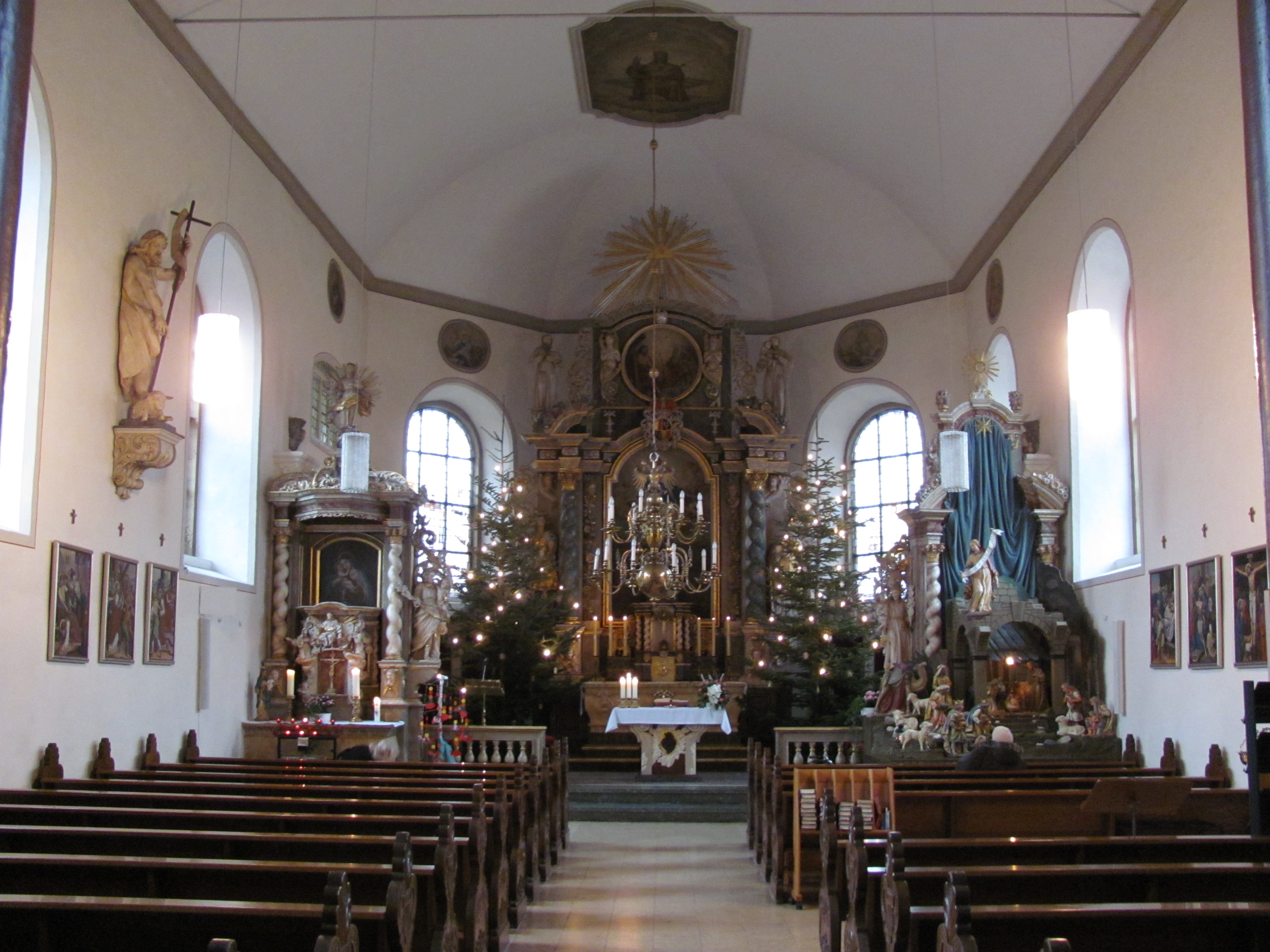 Saint Pankratius Catholic Church, Giesen-Groß Förste, Lower Saxony, Germany